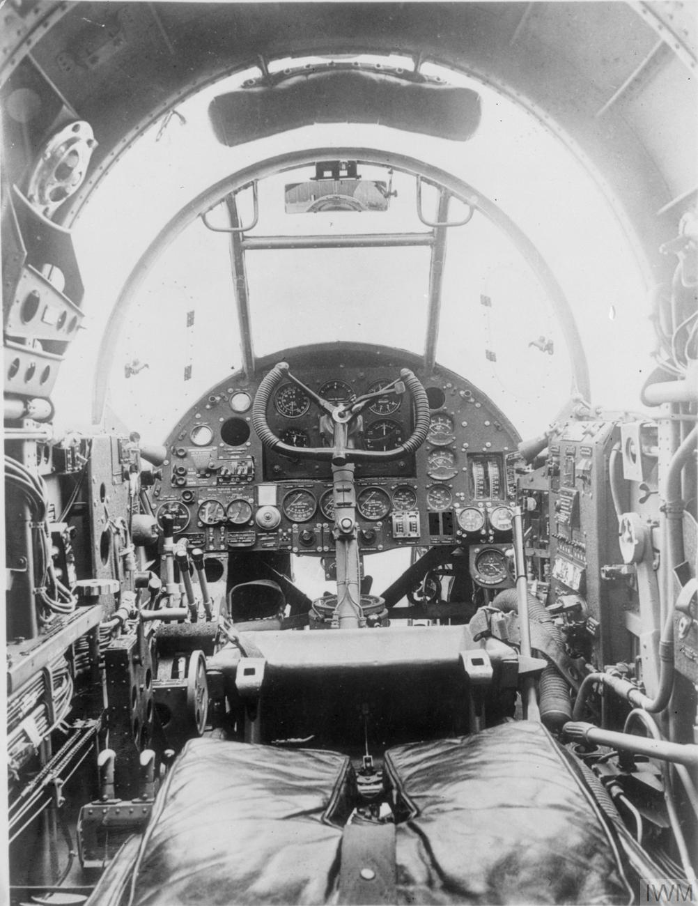 The instrument panel and flying controls of a Handley Page Hampden.